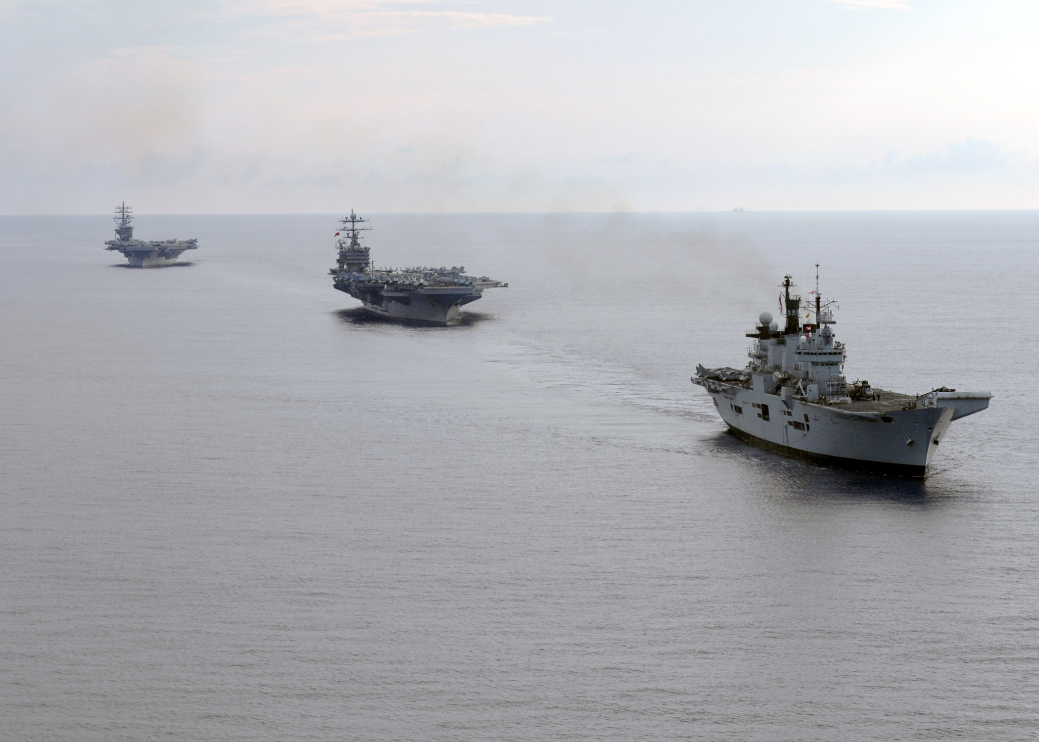 ATLANTIC OCEAN (July 29, 2007) - The Royal Navy Invincible-class aircraft carrier HMS Illustrious (R 06), and Nimitz-class aircraft carriers USS Harry S. Truman (CVN 75) and USS Dwight D. Eisenhower (CVN 69) transit in formation during a multi-ship maneuvering exercise in the Atlantic Ocean. The three carriers are currently participating in Operation Bold Step where more than 15,000 service members from three countries partake in the Joint Task Force Exercise (JTFX). U.S. Navy photo by Mass Communication Specialist 2nd Class Jay C. Pugh (RELEASED)